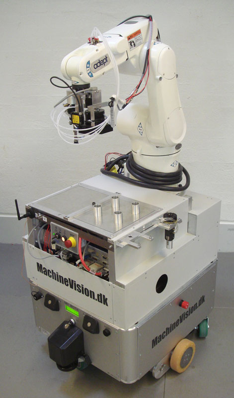 A picture of the industrial mobile manipulator "Little Helper" from the Department of Production at Aalborg University in Denmark.